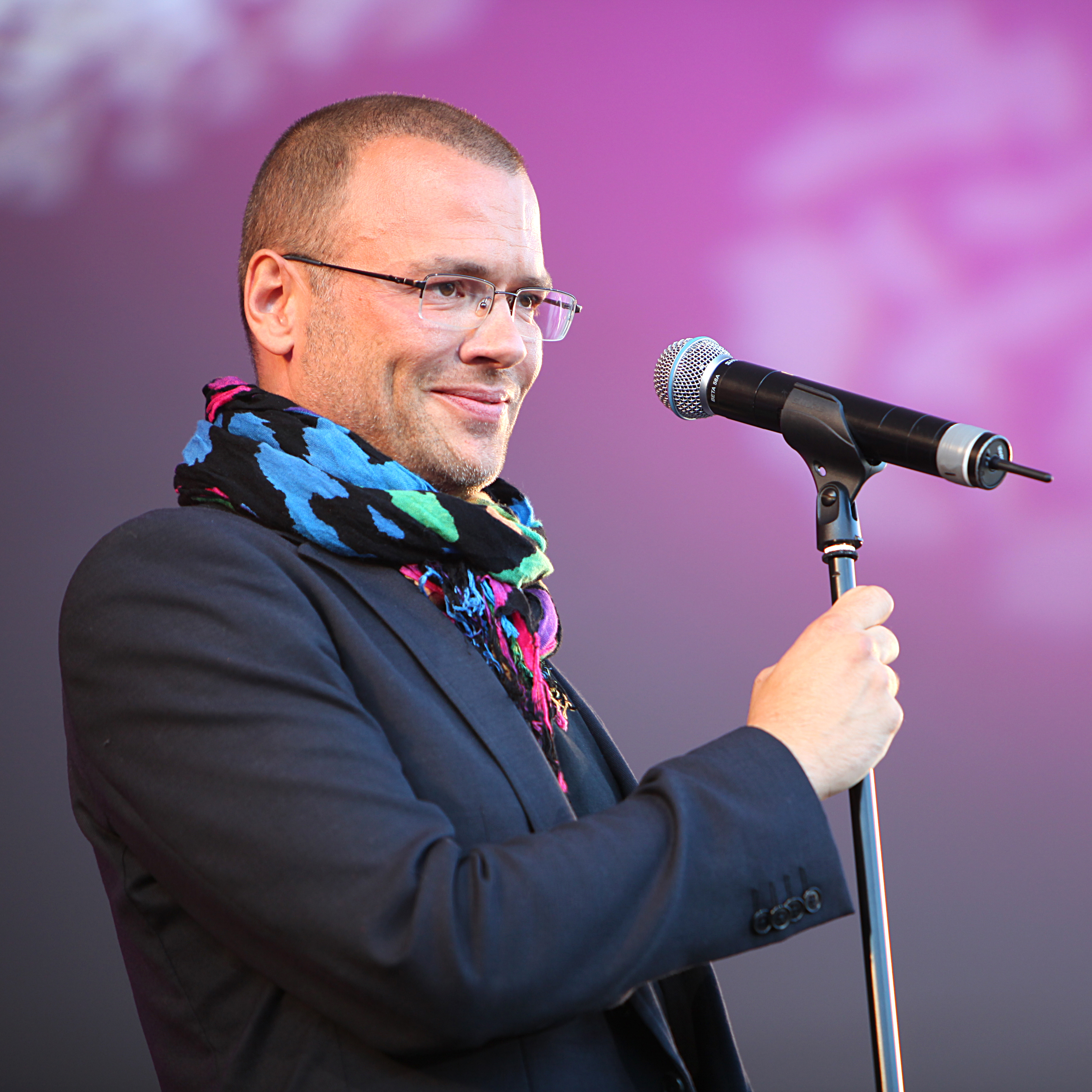 Andreas Lundstedt, singer and performer.